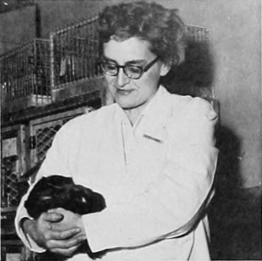 Helen M. Ranney, assistant professor of clinical medicine